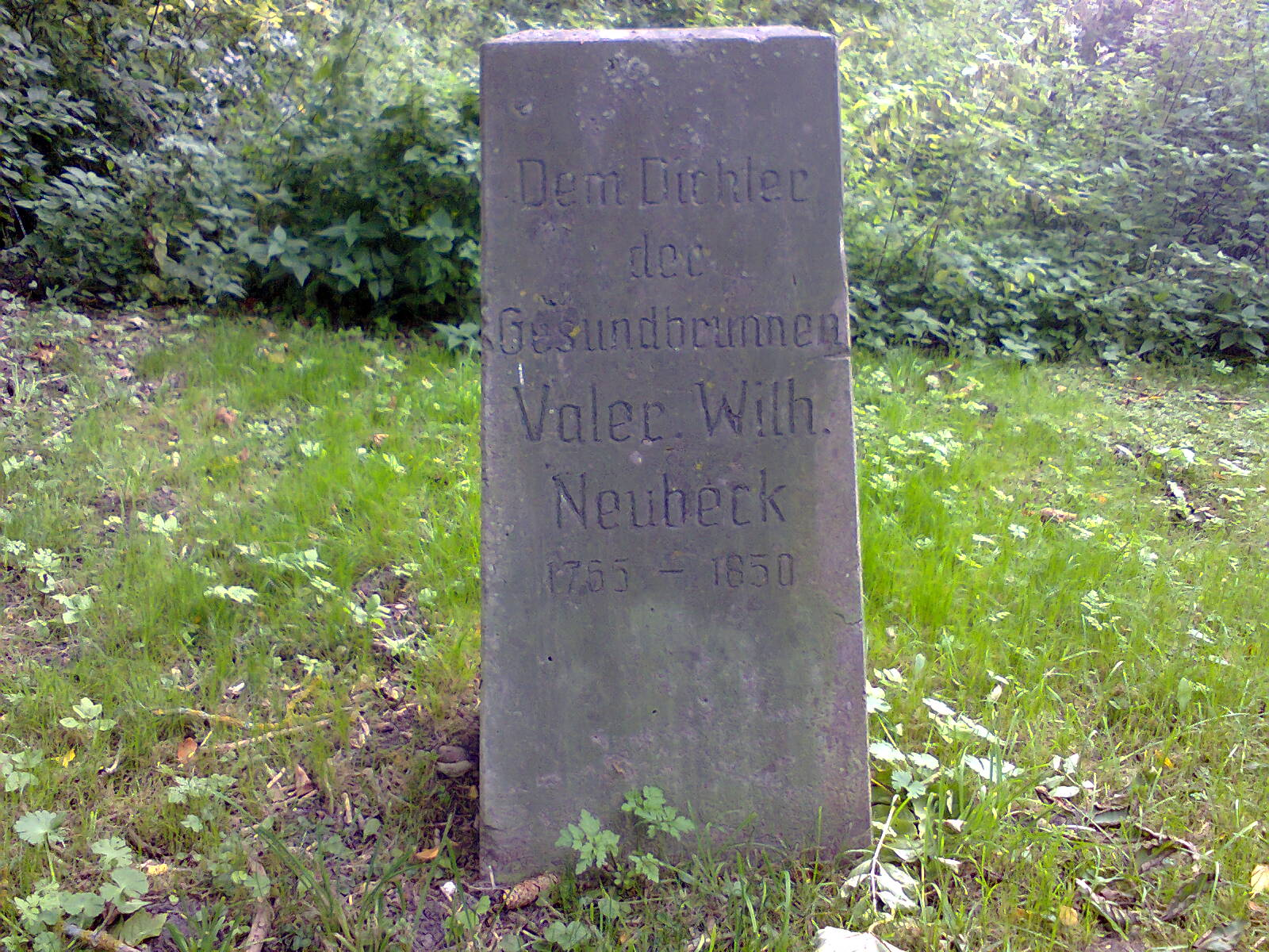 Valerius Wilhelm Neubeck monument Arnstadt